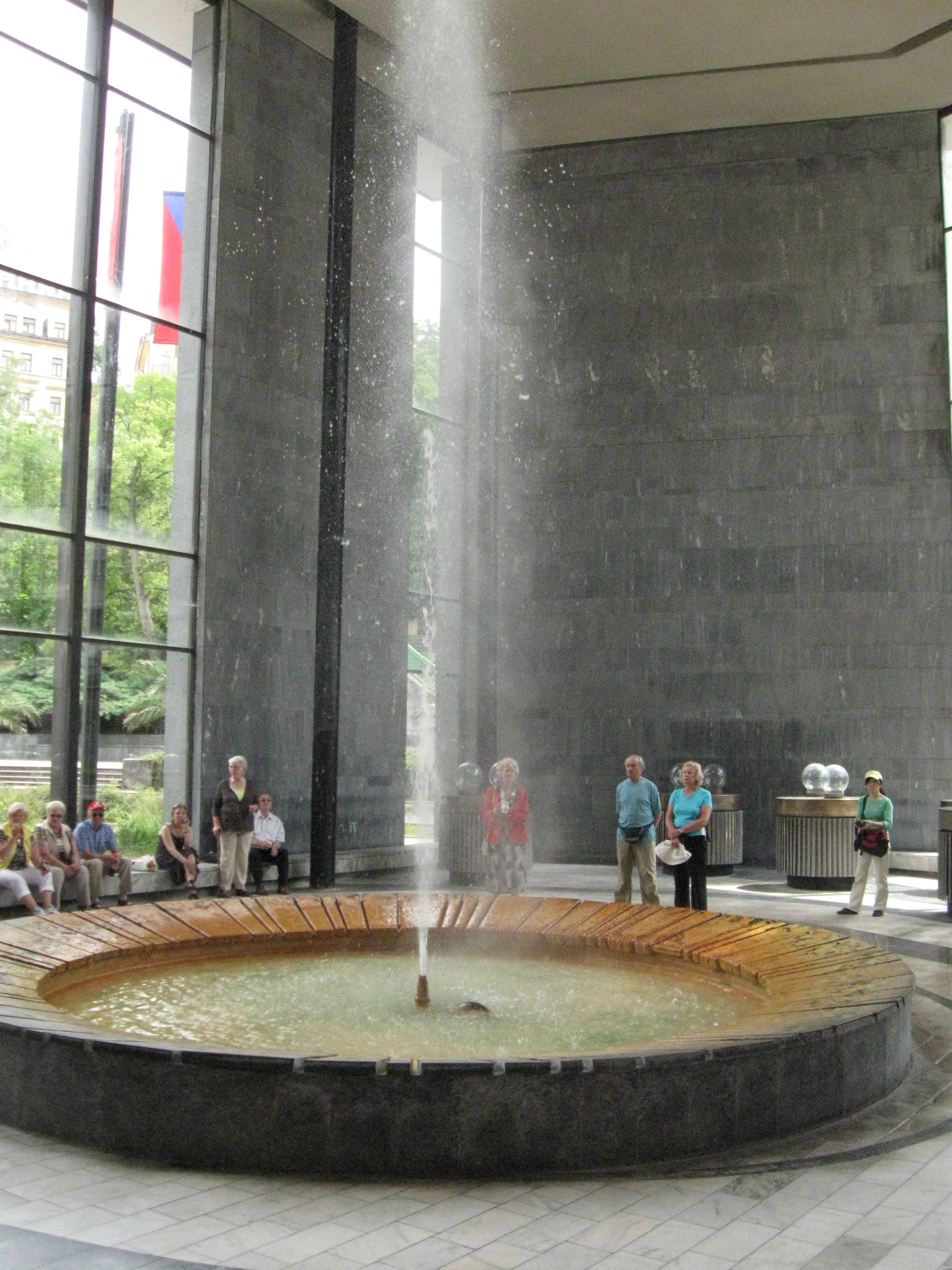 Vřídlo (Geyser), Karlovy Vary, Czech Republic.